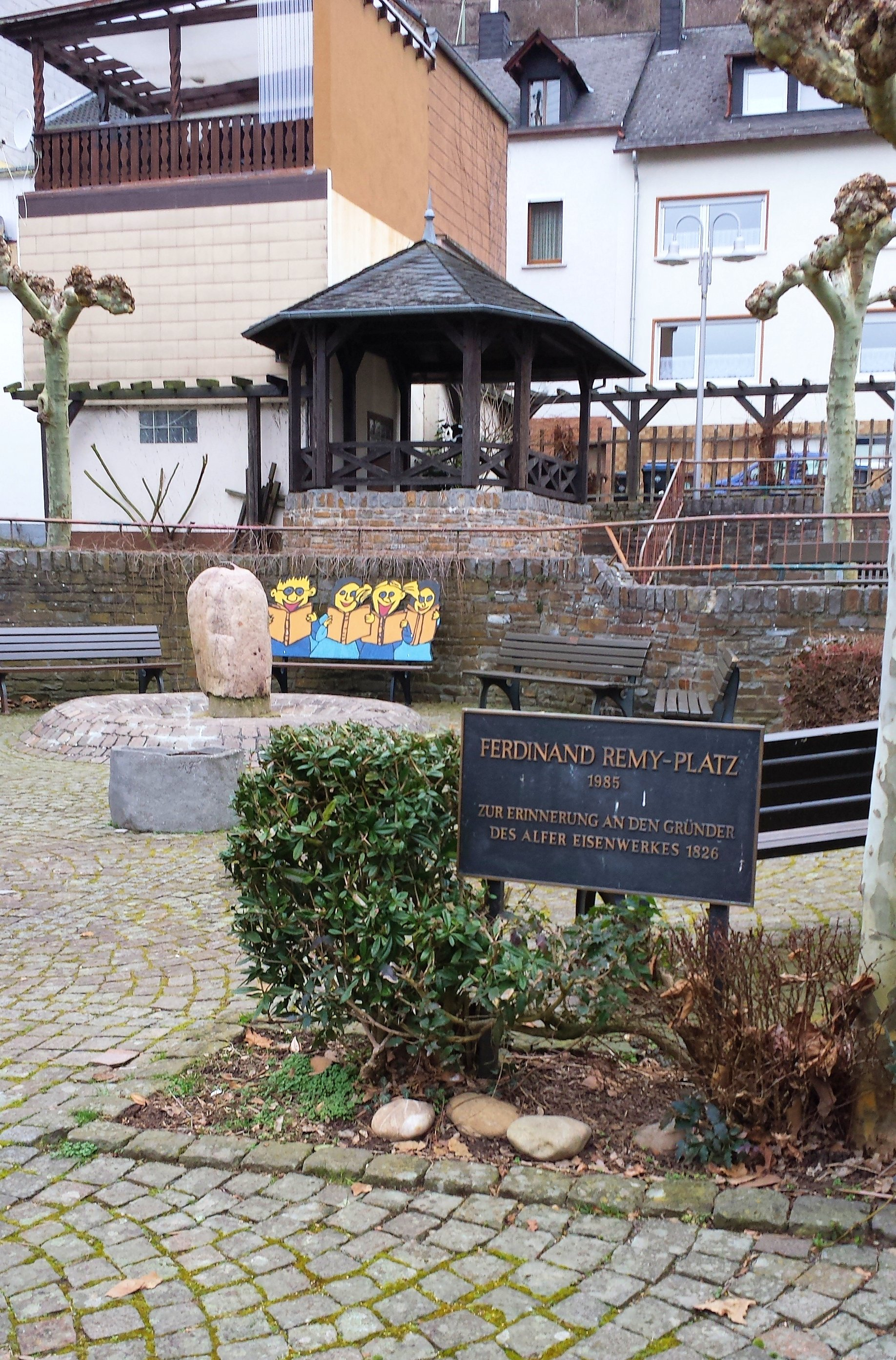 Ferdinand-Remy-Platz in Alf with Memorial Plaque